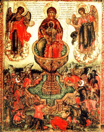 The icon of Our Lady the Vivifying Fountain